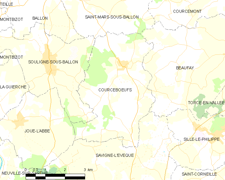 Map of French municipality